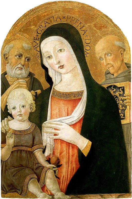 Madonna-and-child-with-saints-_1480-85_Вашингтон_НГИ.jpg